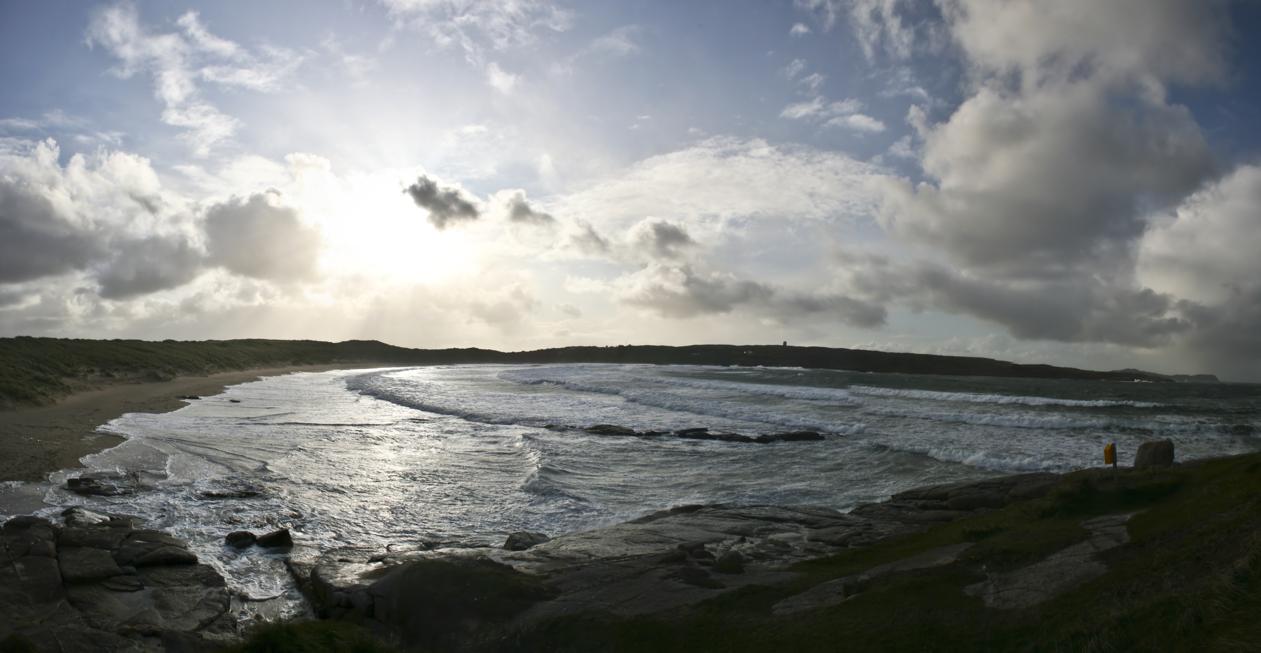 Muladhdearg beach west Donegal